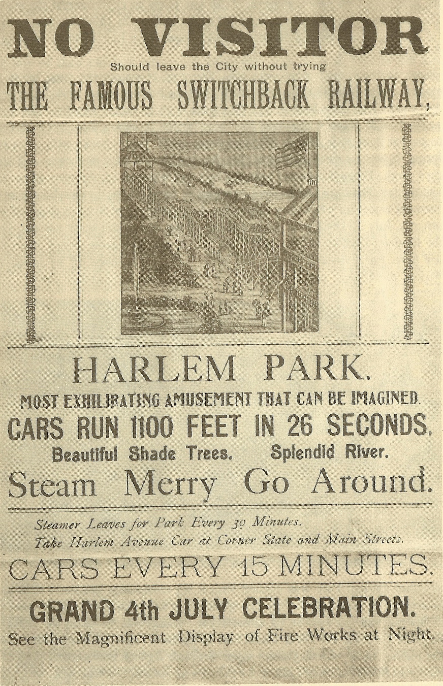 Image of an advertising flyer / poster from 1890s for Harlem Park amusement park and Chautauqua site in Rockford, Illinois